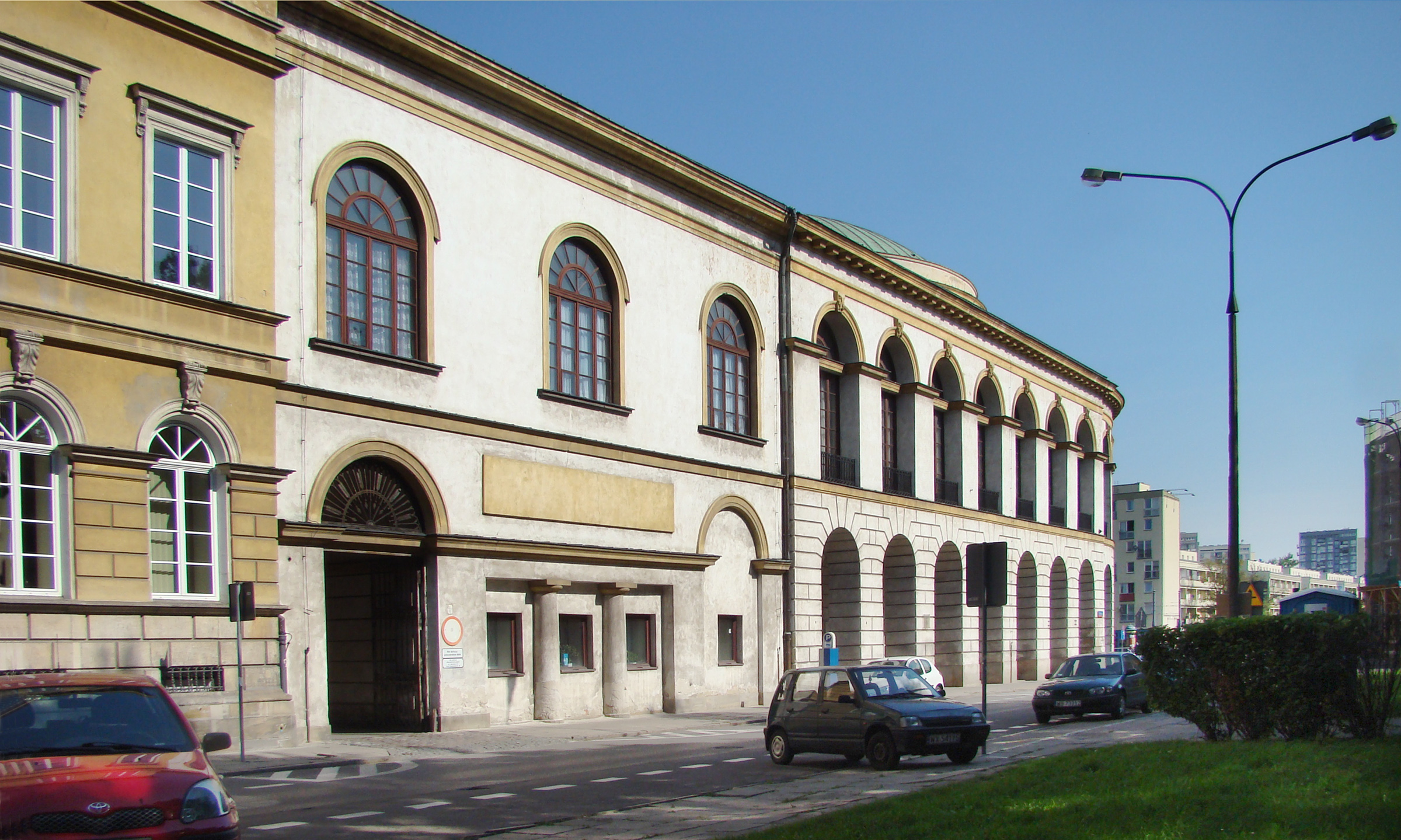 Main Measure Office, 2a, Elektoralna St., Warsaw